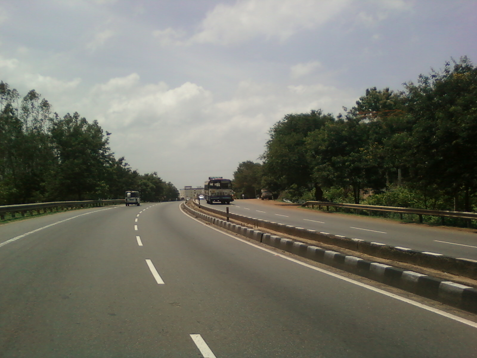 (NH 5)National Highway 5 at Madhurawada in Visakhapatnam. NH 5 has been renumbered as NH-16